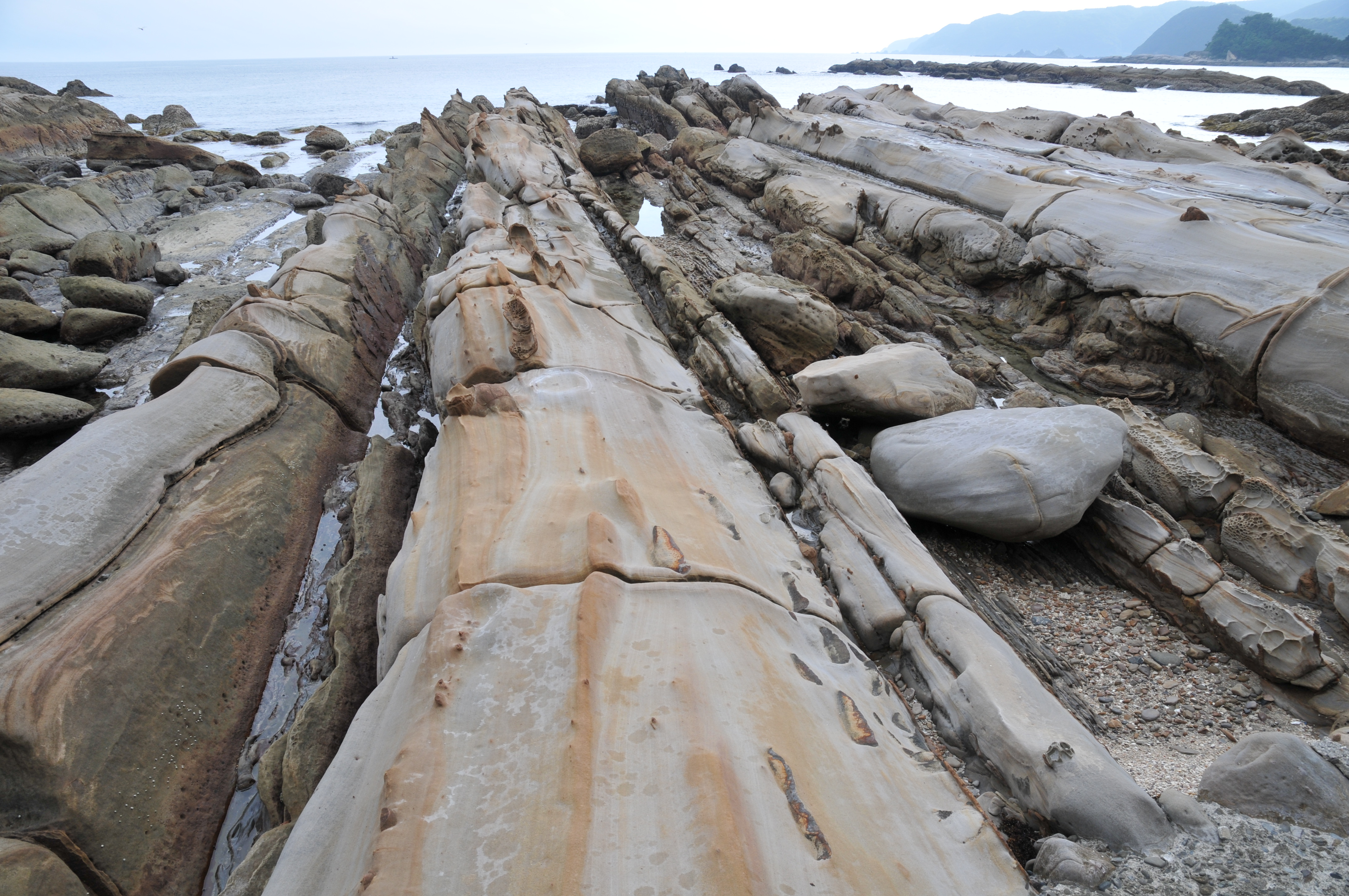 Ōtake-kotake, Tatsukushi coast